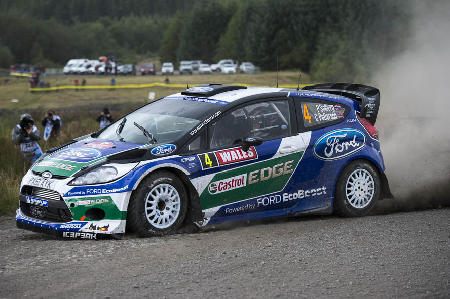 Wales Rally Great Britain 2012 Chris Patterson,Ford Fiesta RS WRC,Ford WRT,Ford World Rally Team,Motorsport,Petter Solberg,Qualifying,Rally,Rallye,WRC,Wales Rally GB,Walters Arena